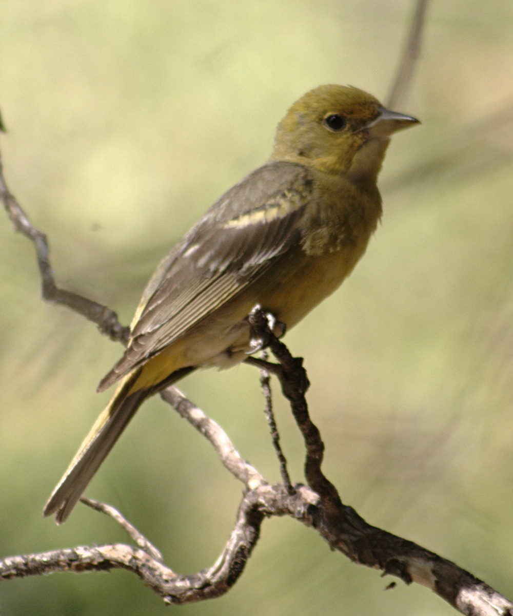 Female Western Tanager, Piranga ludoviciana, Bandelier National Monument, New Mexico.